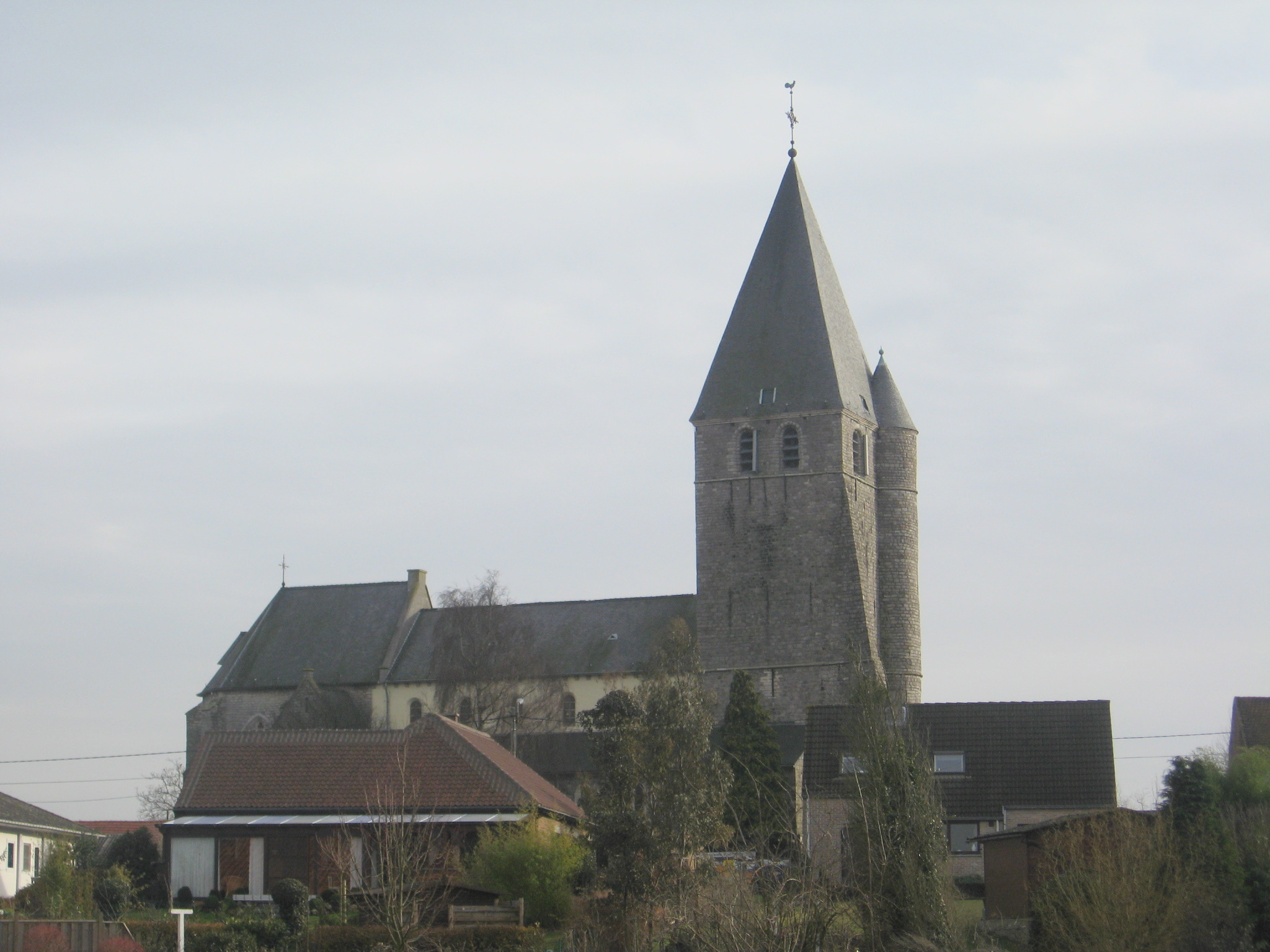 Church of Saint Lawrence in Goetsenhoven, Tienen, Flemish Brabant, Belgium